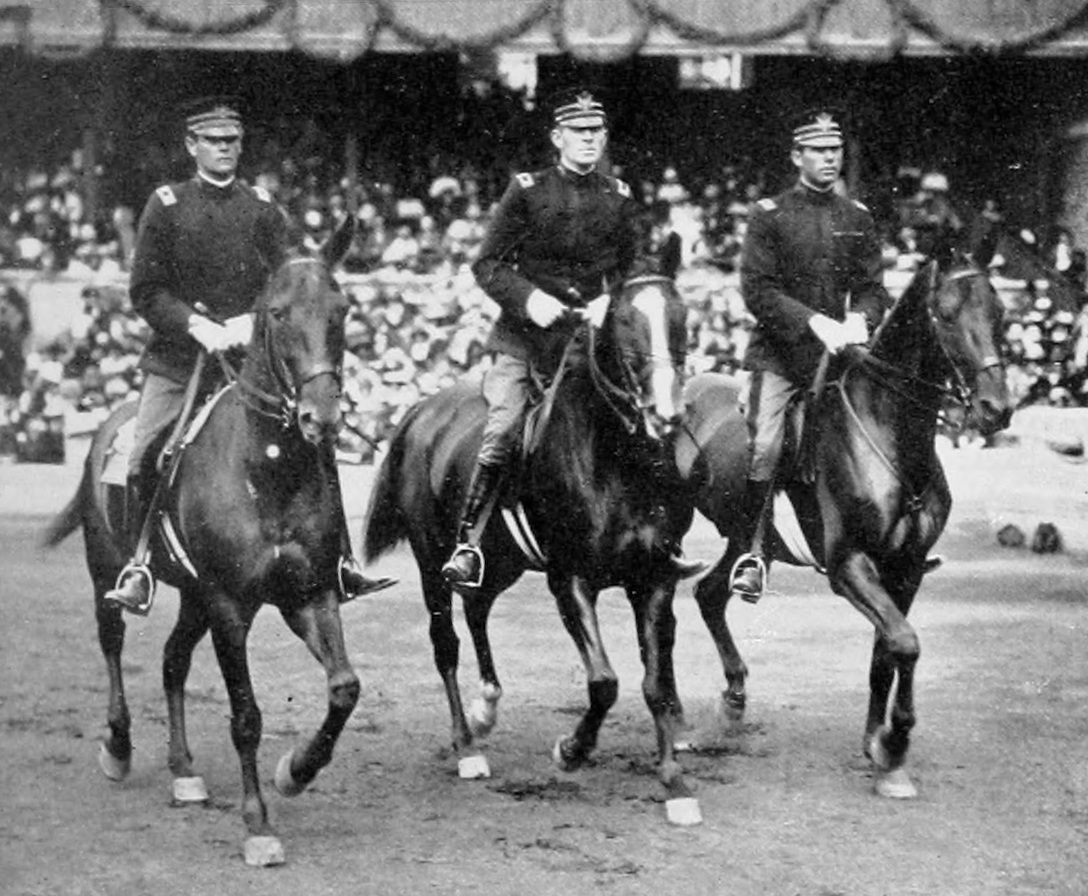 U.S.A. team in the field competition ("Militaky"). 3rd prize. Captain Henry; Lieutenant Montgomery; Lieutenant Ben Lear